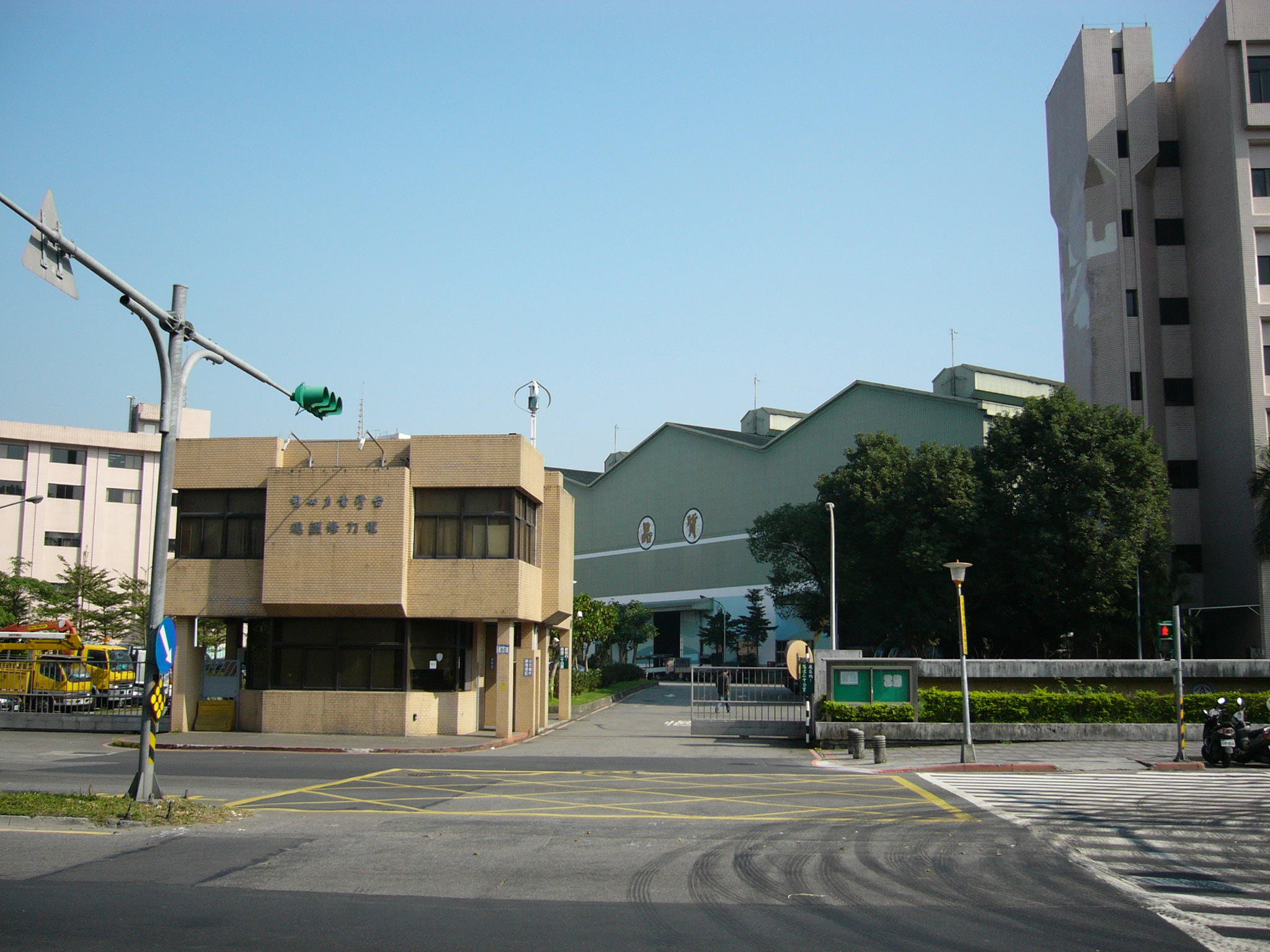 Department of Power Equipment Repair and Maintenance, Taiwan Power Company.